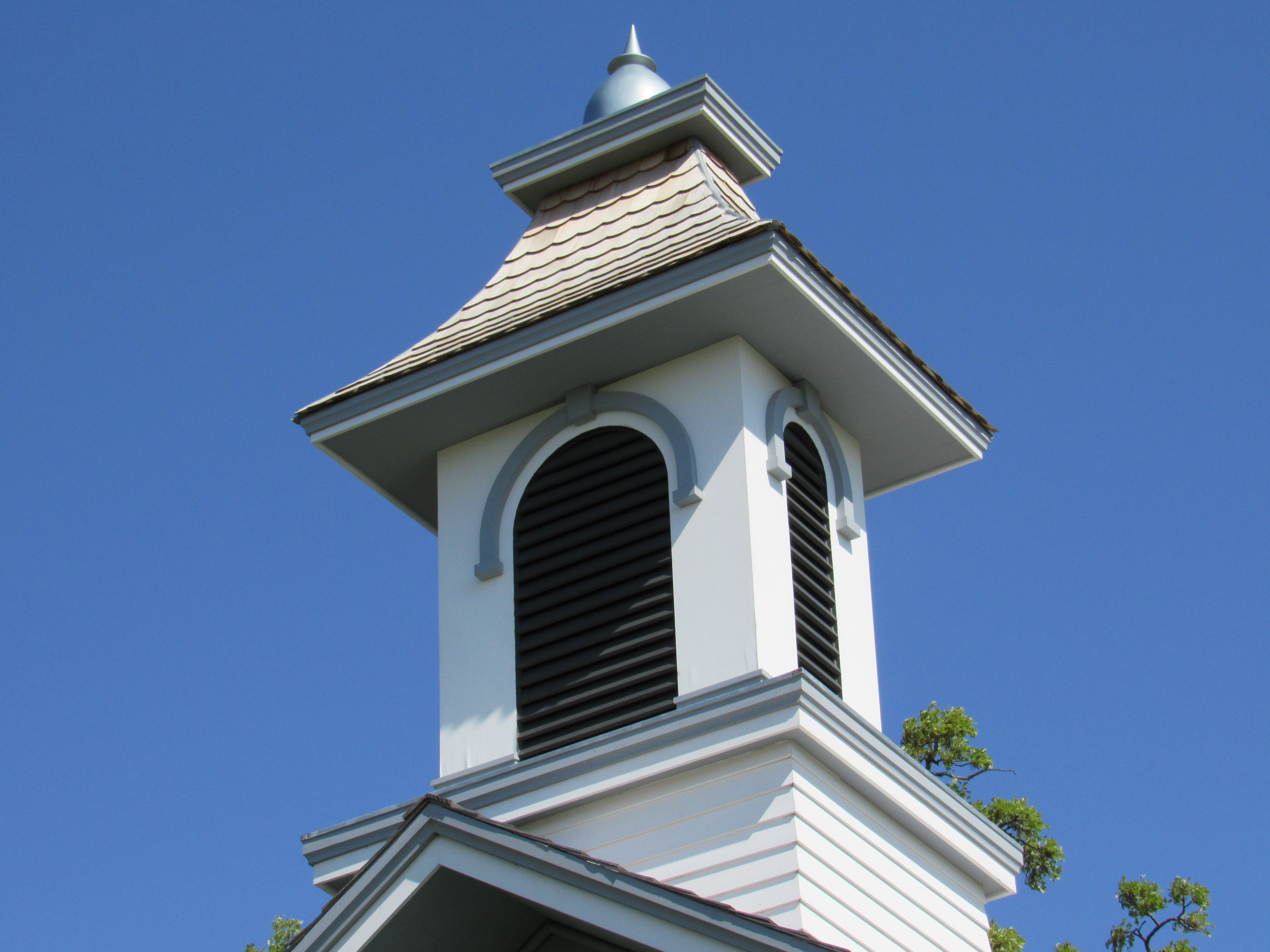 Forest Grove School No. 5 near Bettendorf, Iowa is listed on the National Register of Historic Places.